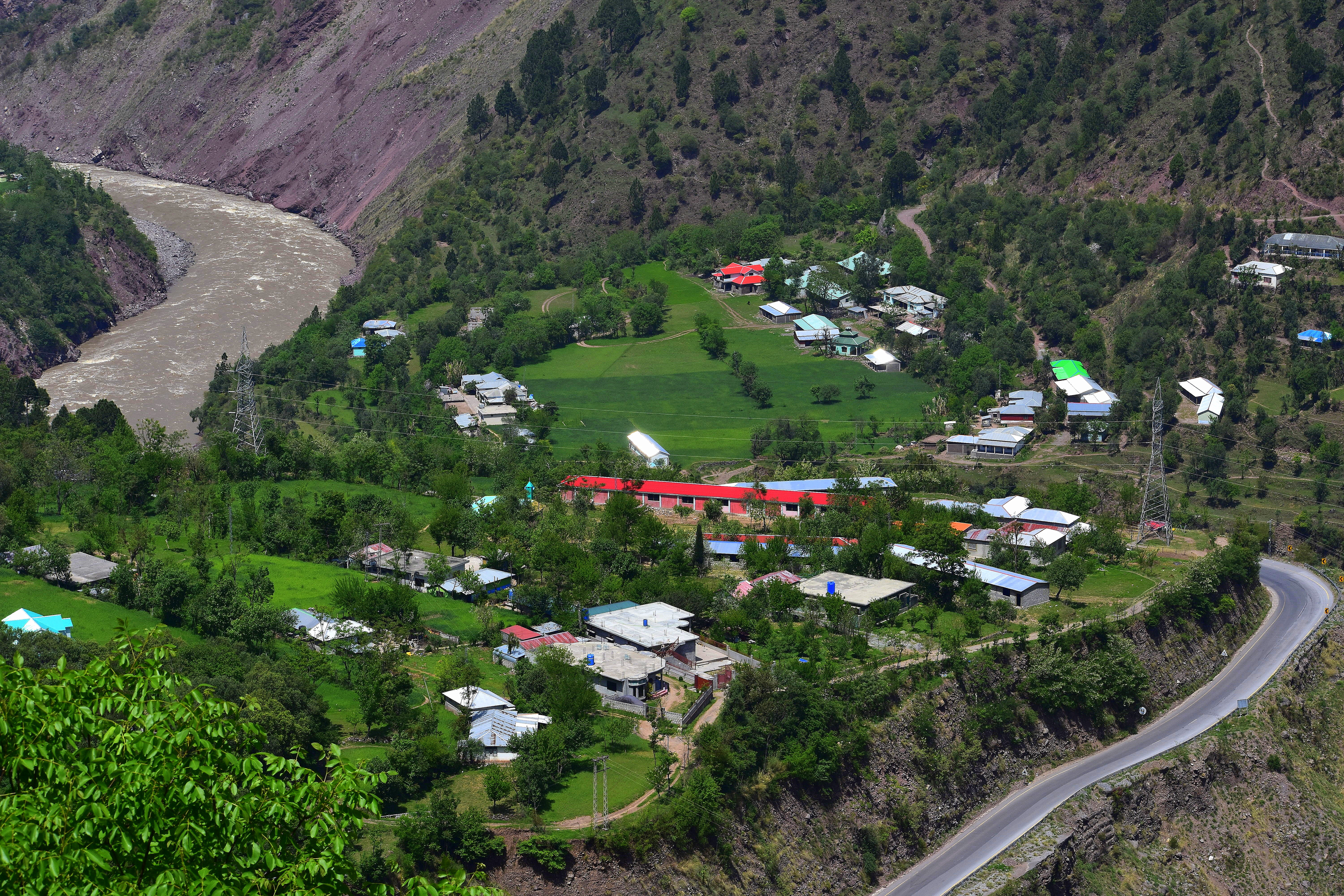 A scene of Jhelum Valley